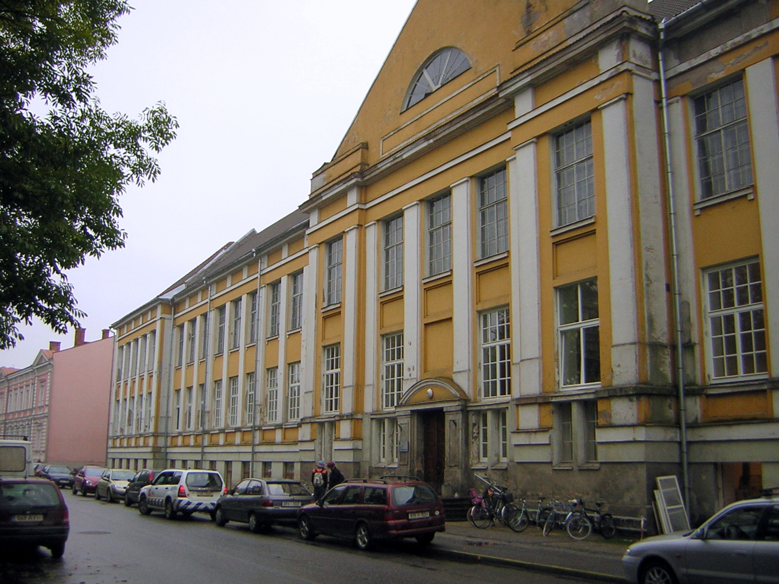 Main building of the Faculty of Science and Technology. Tartu University.